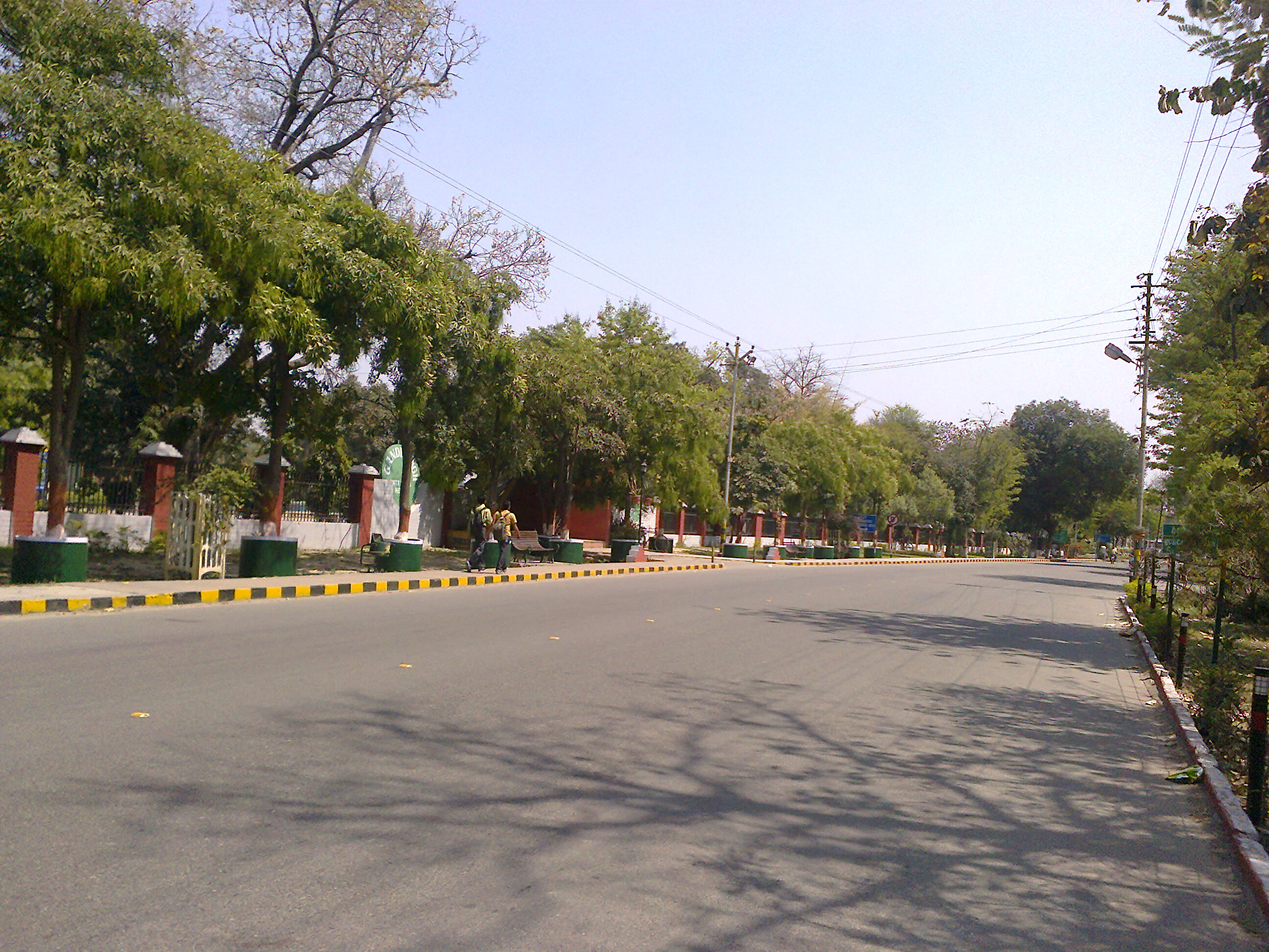 This is a view of the mall road in Meerut,Uttar Pradesh, India. This road runs across the Meerut cantonment and has been present since before independence. Seen here on the left is the boundary wall of Gandhi Bagh, a large public garden also present since before independence.